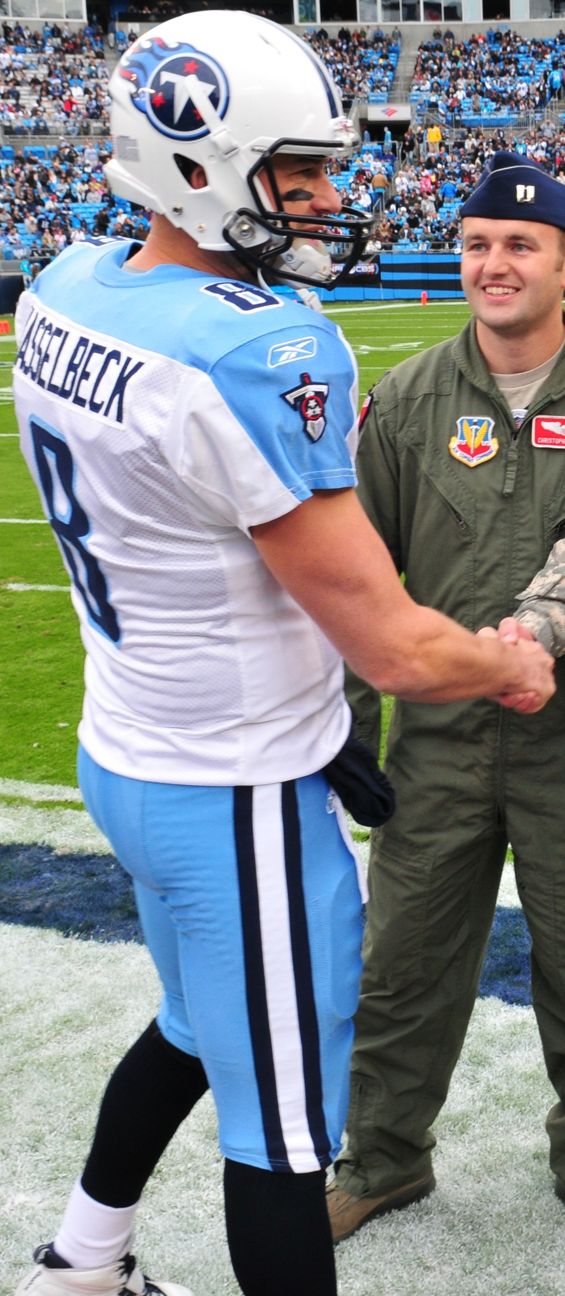 CHARLOTTE, N.C. -- November 13, 2011 - Major Dave Baker of the North Carolina Army National Guards' 449th TAB meets Tennesee Titan Quarterback Matt Hassellbeck after the coin toss, all part of his Operation Gameday Experience with Carolina Panthers at the Bank of America Stadium. (U.S. Air Force Photo by Tech. Sgt. Brian E. Christiansen)